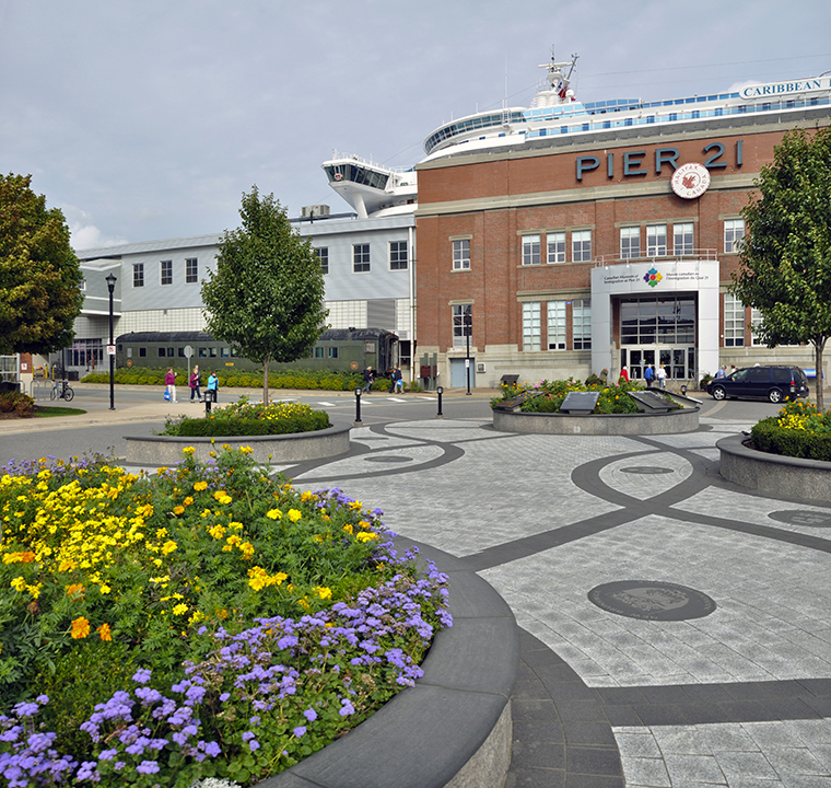 Pier 21 National Historic Site